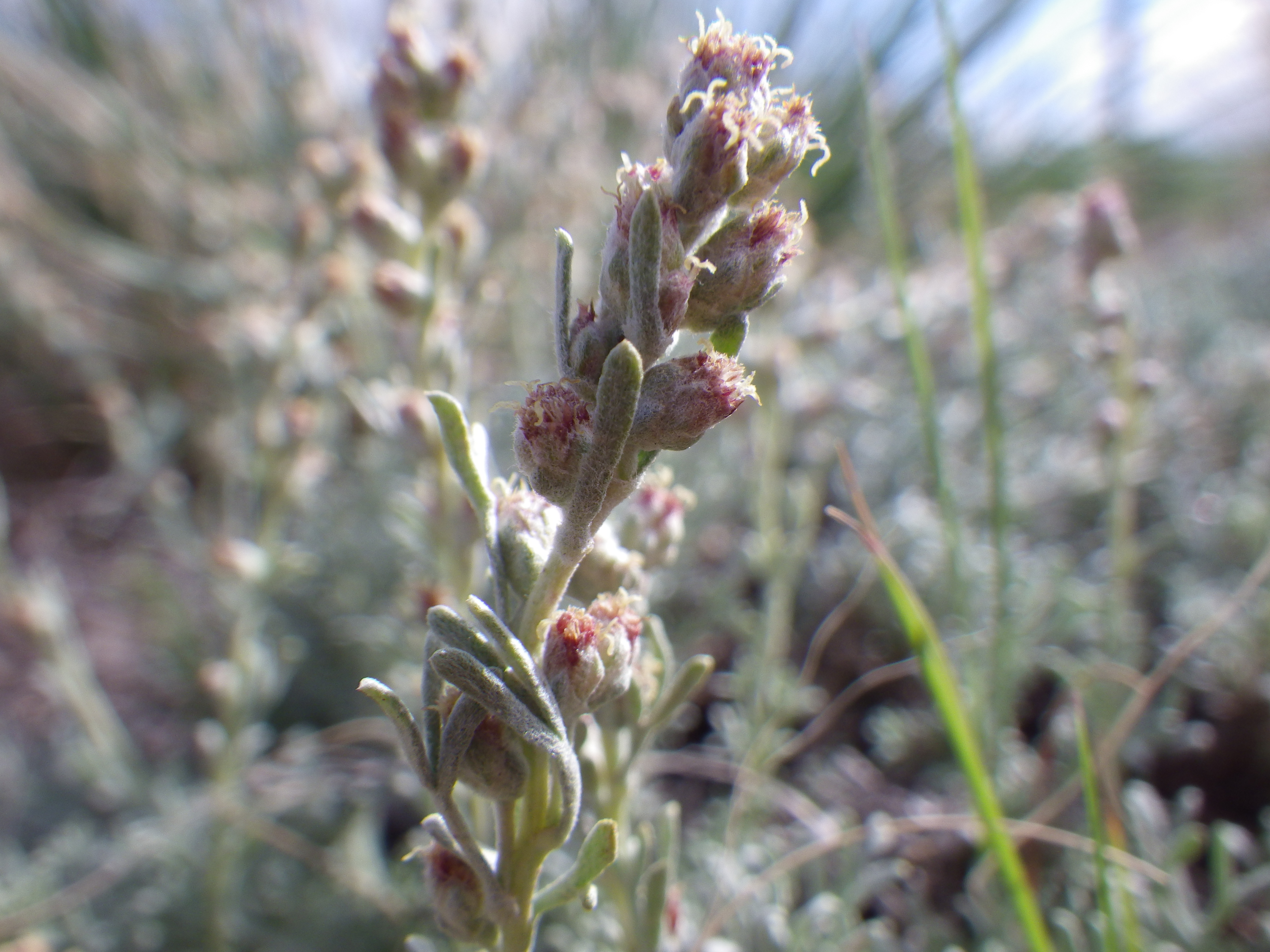 Artemisia pedatifida is not necessarily an azonal species (e.g., relegated to clay knolls) as it can dominate shallow rocky soils and co-exist with many other plant species including about 60 other vascular plant species in this region next to Warren, Montana.